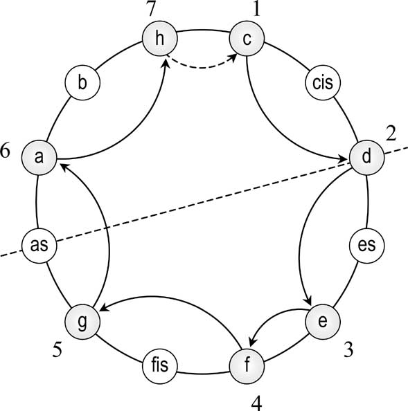 Chromatic circle by Guerino Mazzola. Self made.